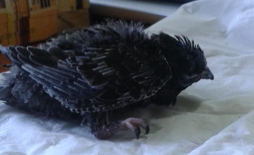 Young swift (Apus apus) I raised last year.